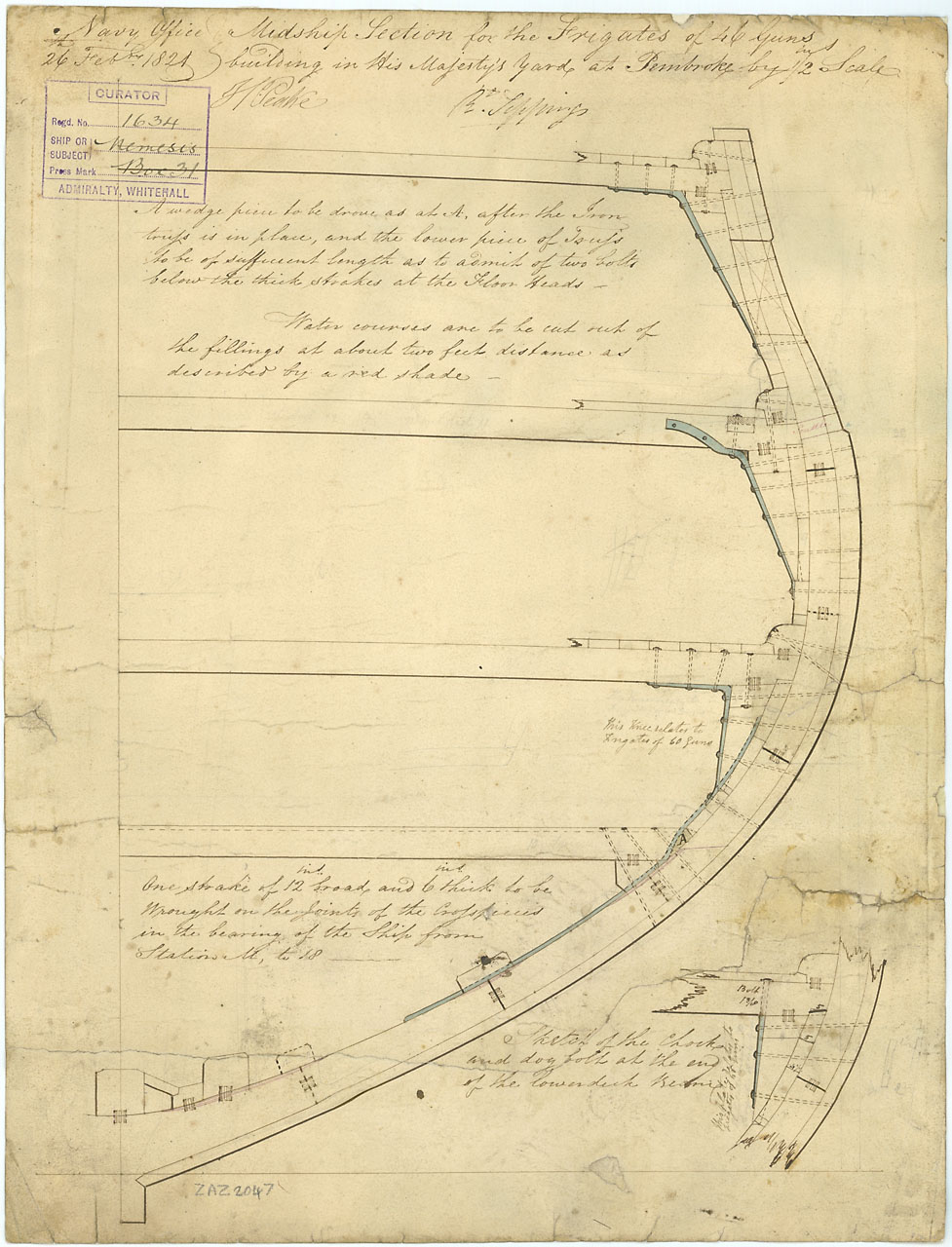 Druid (1825); Nemesis (1826) Scale: 1:48. Plan showing the midship section illustrating the iron truss and knees for Druid (1825) and Nemesis (1826), both 46-gun Fifth Rate Frigates, building at Pembroke Dockyard. Signed by Henry Peake [Surveyor of the Navy, 1806-1822] and Robert Seppings [Surveyor of the Navy, 1813-1832]. NEMESIS 1826